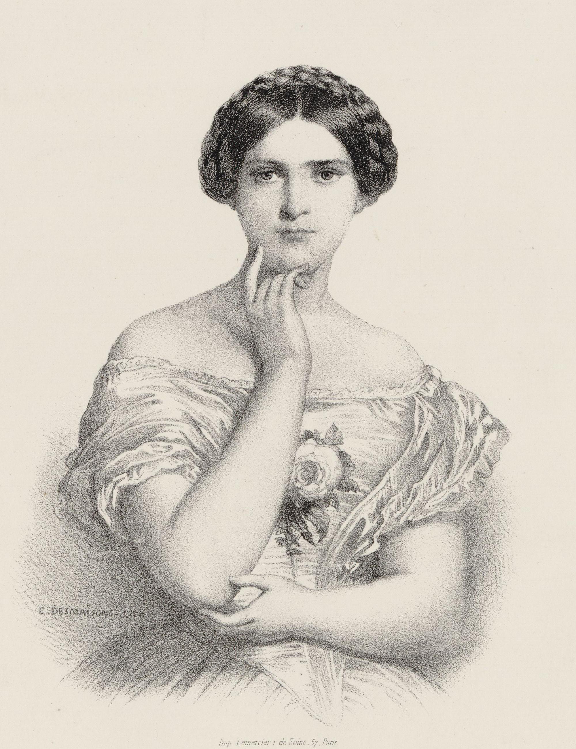 Depicted person: Sophie Cruvelli